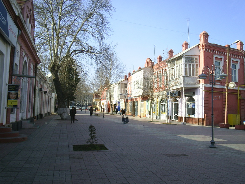 Streets of Ganja, Azerbaijan. Picture taken by me in summer 2006.